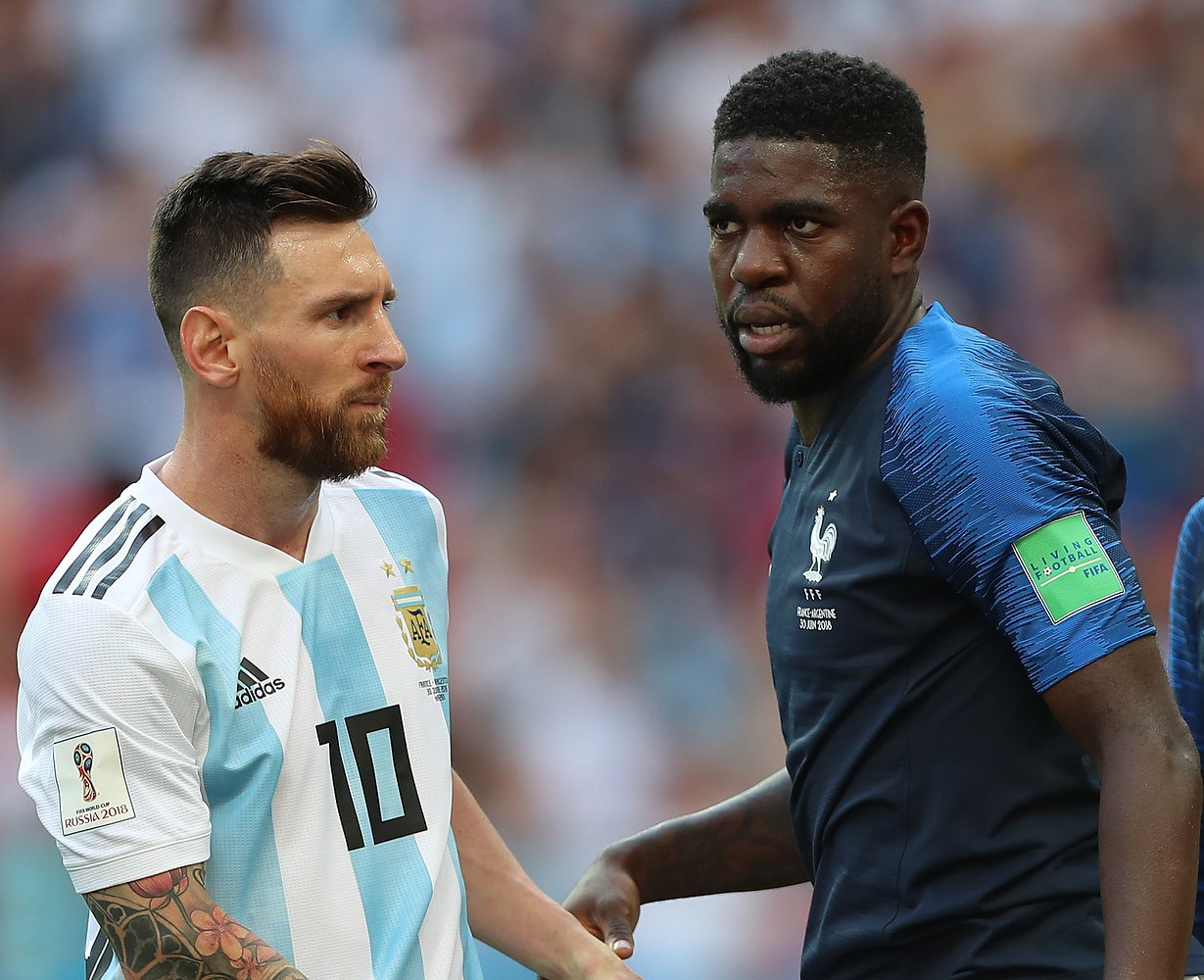 2018 FIFA World Cup Match 50, France v Argentina